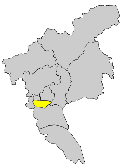 Location of Haizhu District, Guangzhou